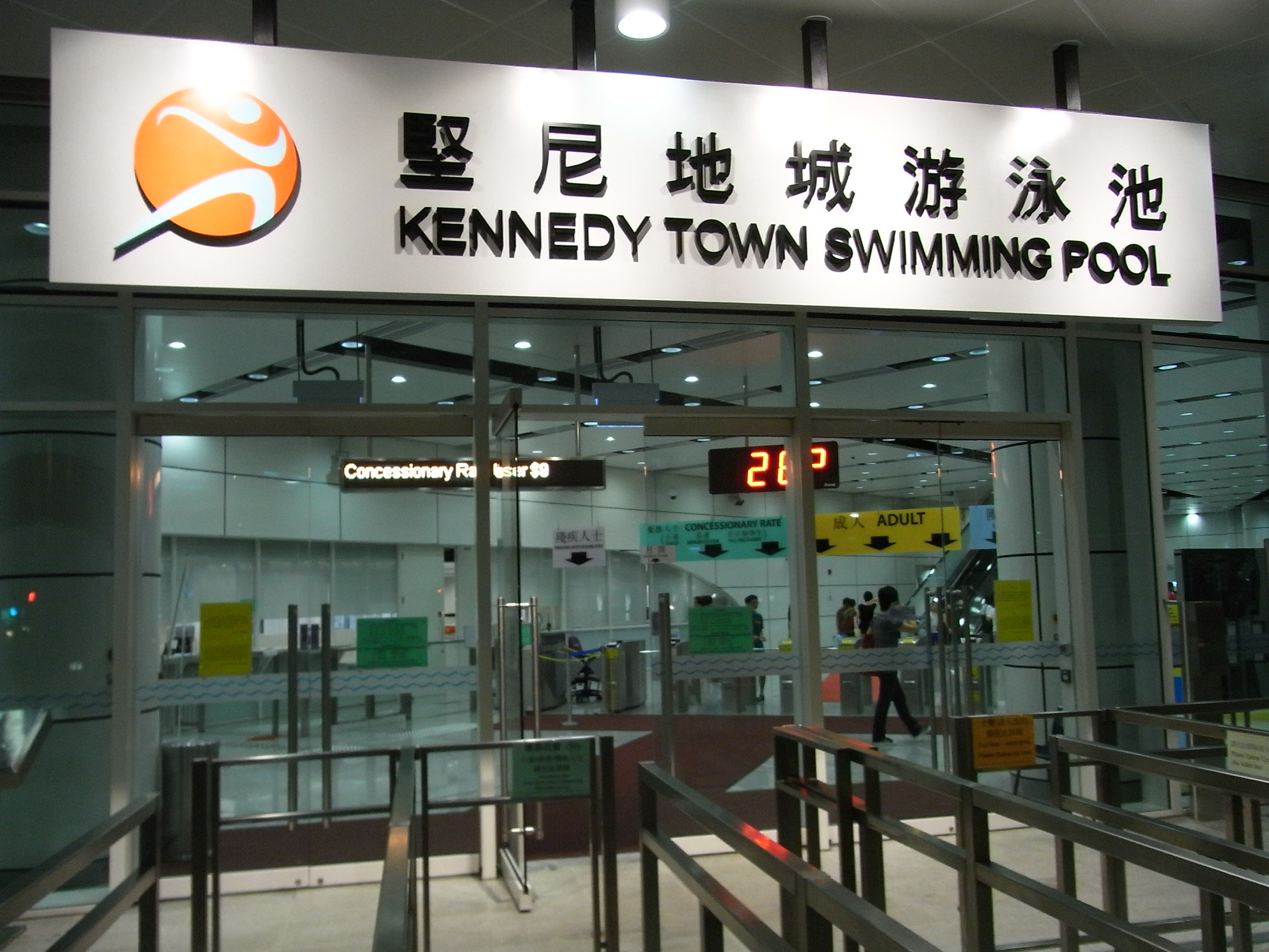 堅尼地城游泳池, Kennedy Town Swimming Pool, Praya Kennedy Town, Hong Kong